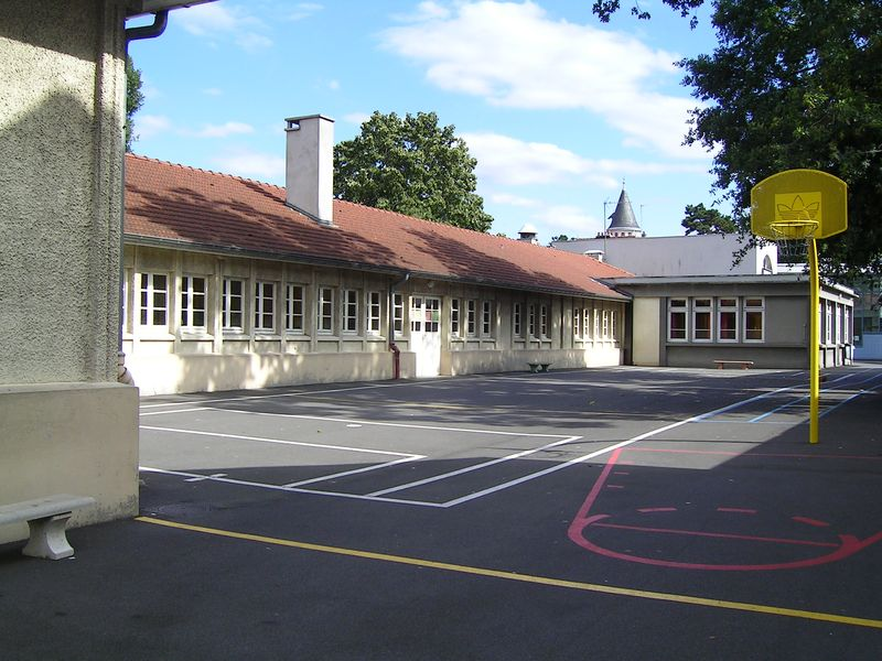 Le Parc primary school, Aulnay-sous-Bois, France.